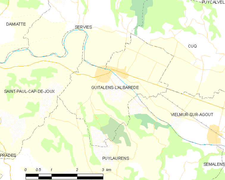 Map of French municipality Guitalens-L'Albarède